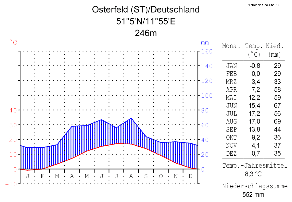 climate chart in the format by Walter and Lieth, metric, °Celsisus and millimeters, made with Geoklima 2.1